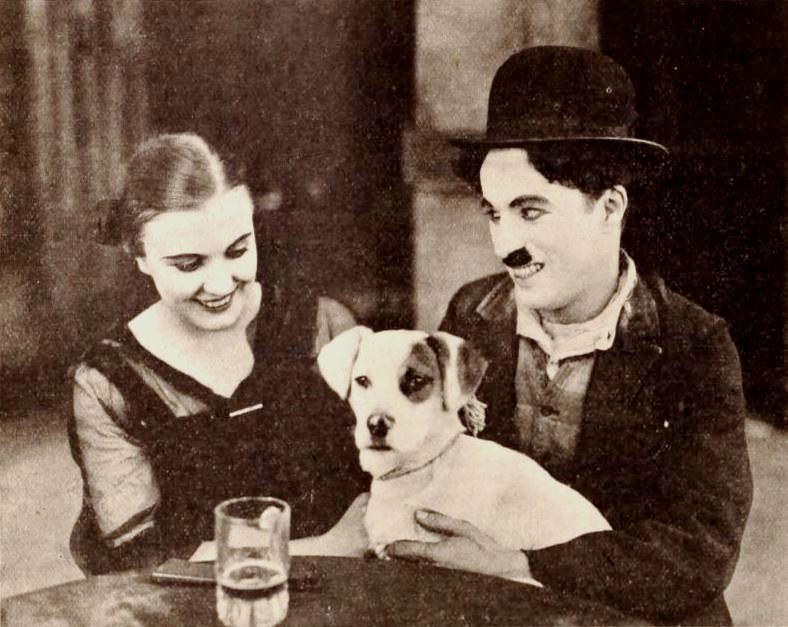 Still from the American comedy film A Dog's Life (1918) with Edna Purviance and Charlie Chaplin, on page 22 of the April 13, 1918 Exhibitors Herald.